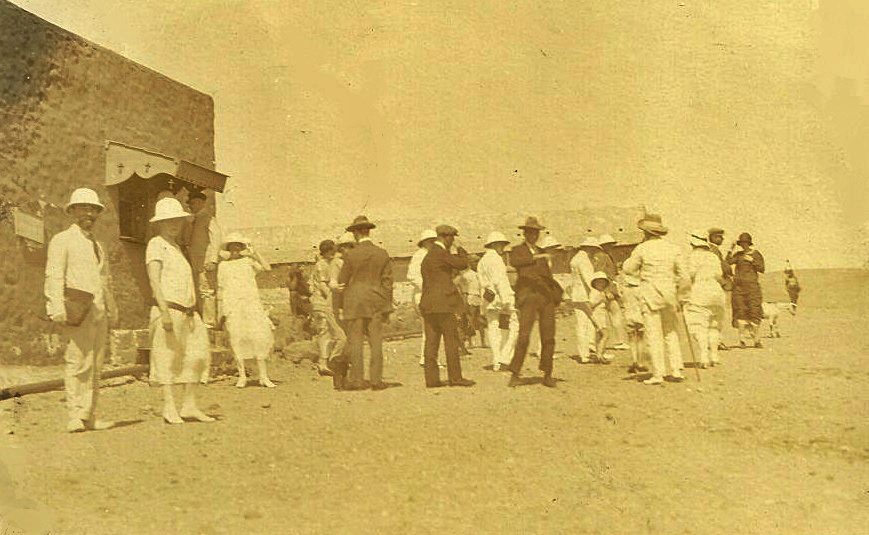 Passengers waiting ashore on Perim Island while their steamer is being coaled. Real photo postcard postally used in March 1925.